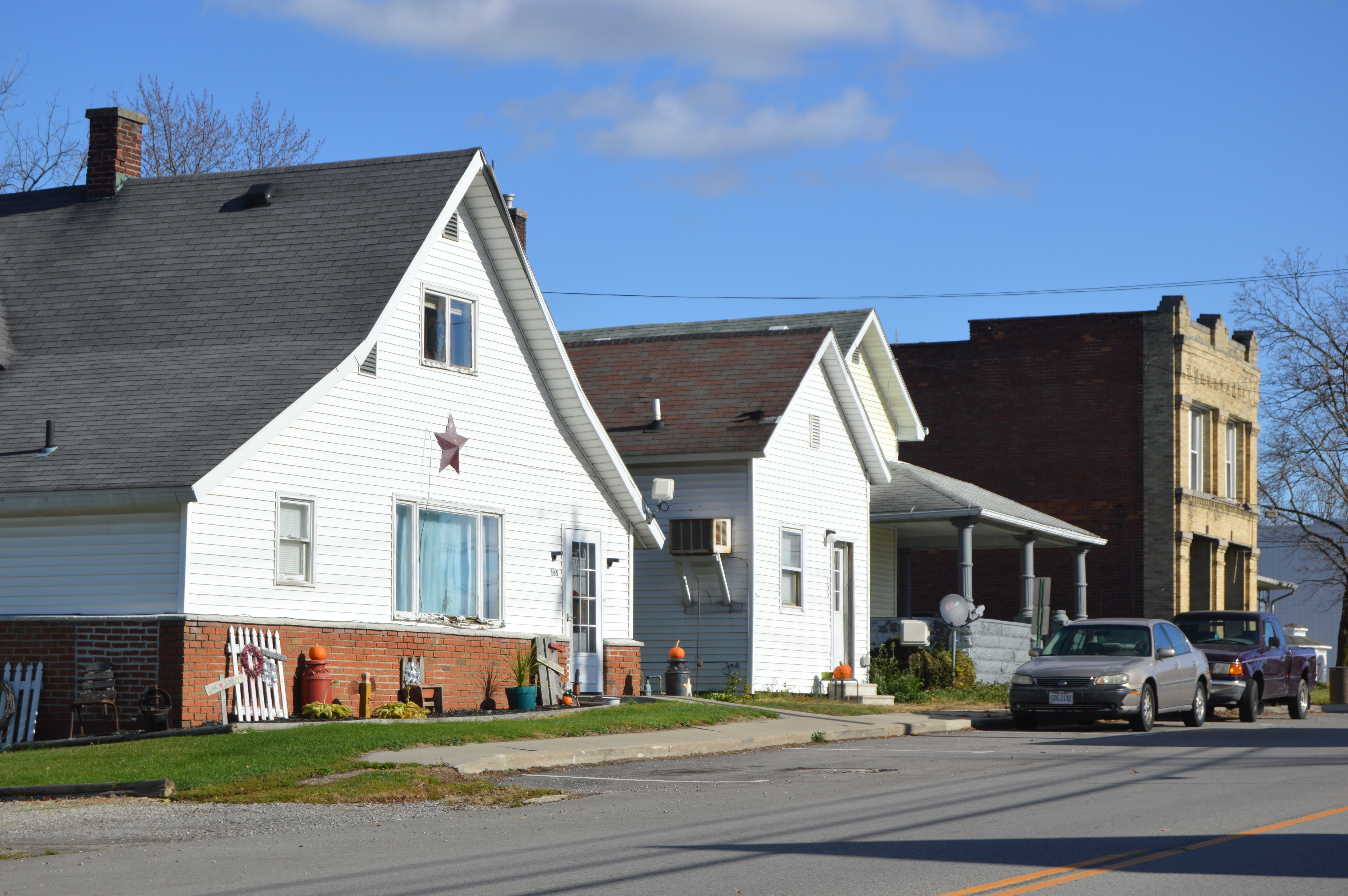 Northern side of Main Street (State Route 15) west of Water Street in Ney, Ohio, United States.